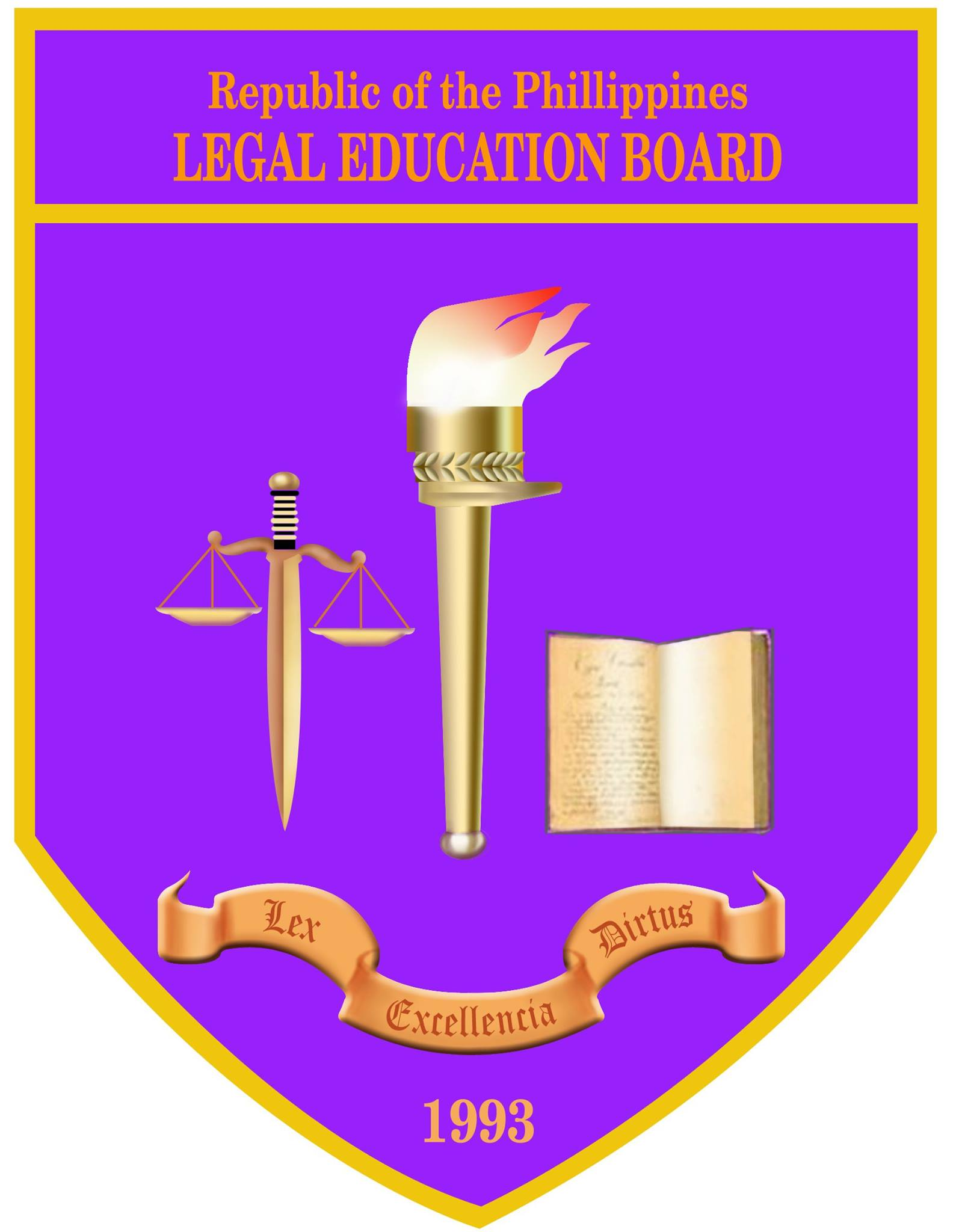 Seal of the Philippines'Legal Education Board